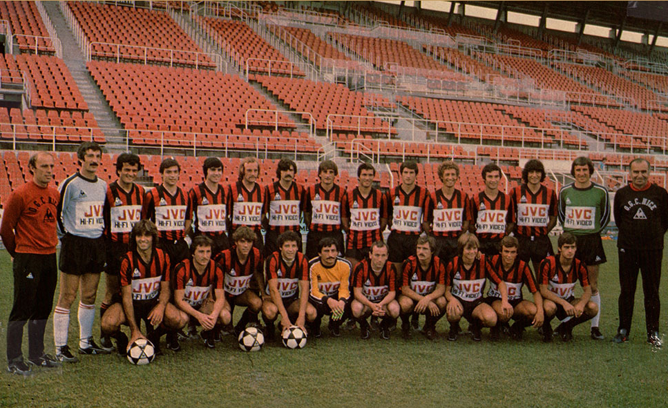 OGCNice Squad 1980-1981